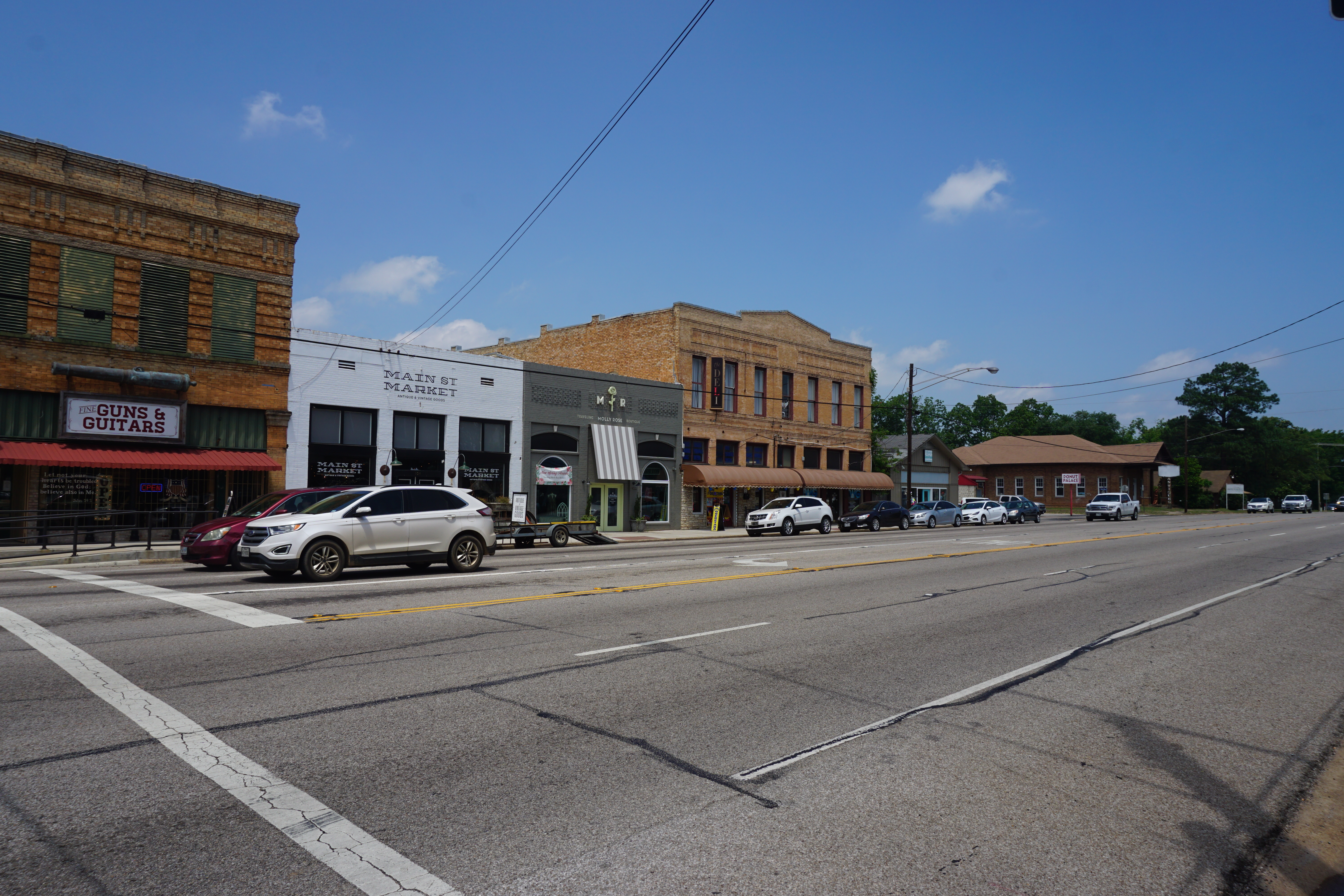 North Main Street in Lindale, Texas (United States).